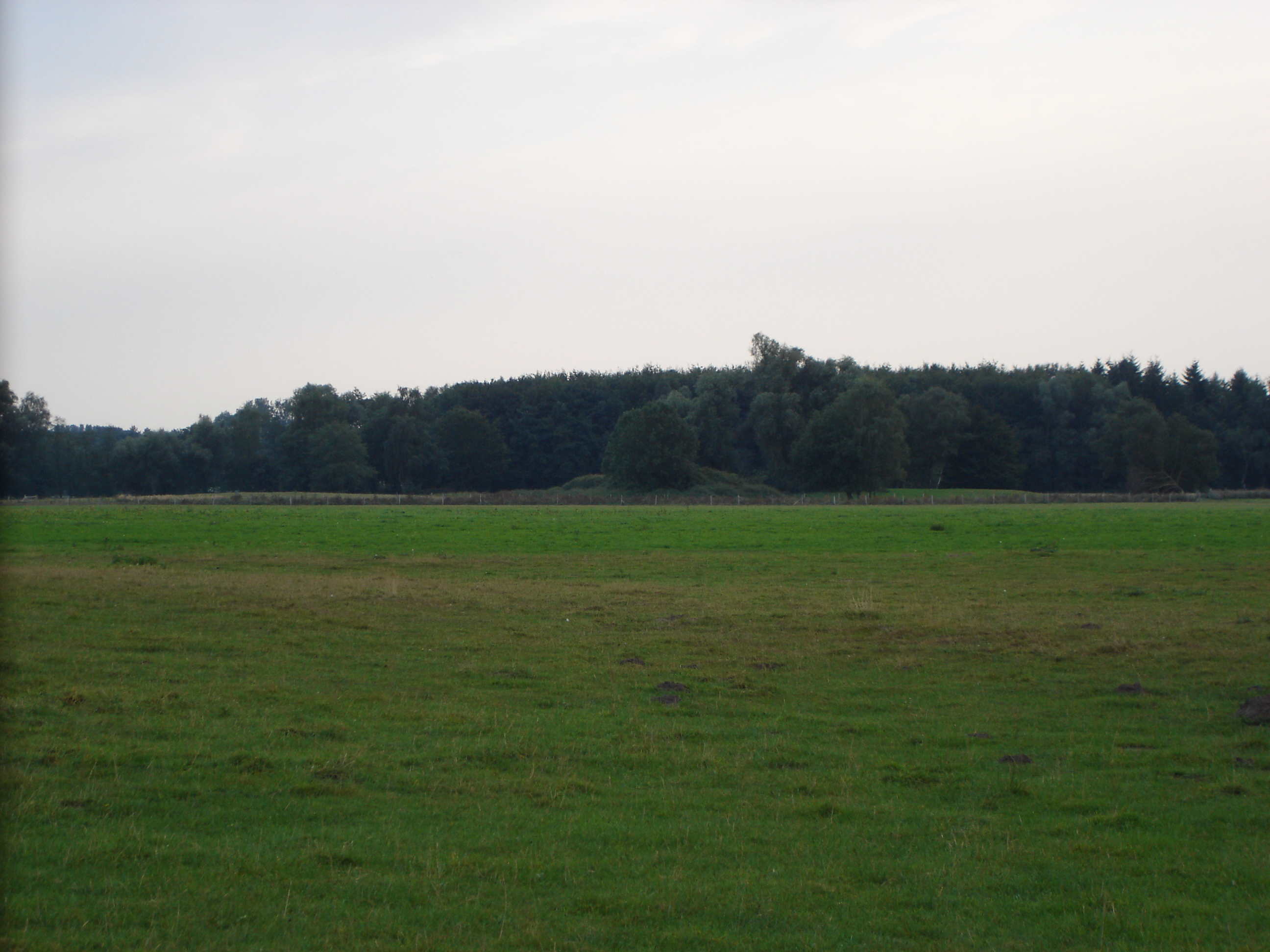 Panorama view of the former airfield Handorf in Münster, Westphalia, Germany. Western part photographed in south direction. In the background a pile out of remnantes of the former Nike missile launch site IFC.